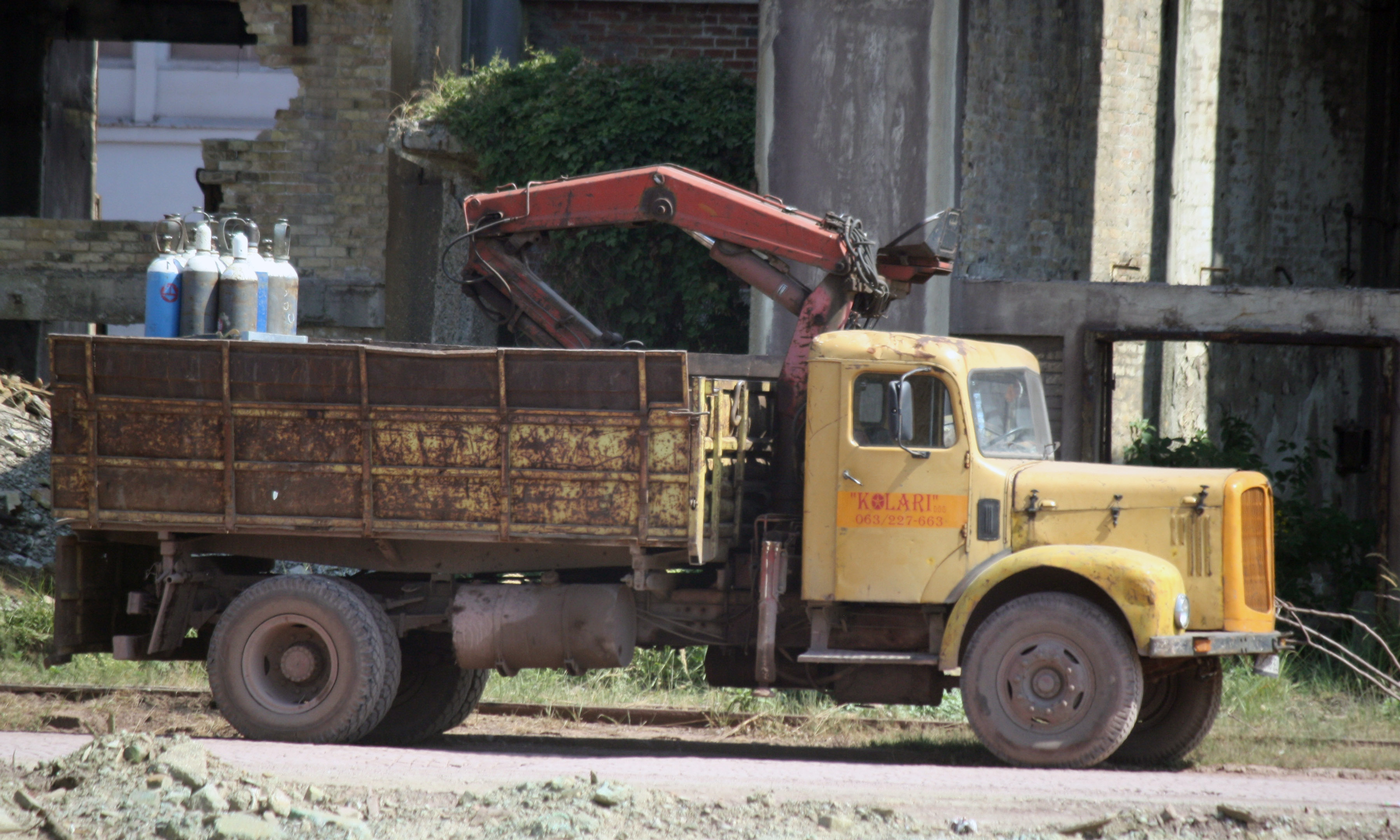 FAP 1314 truck with crane in Šabac